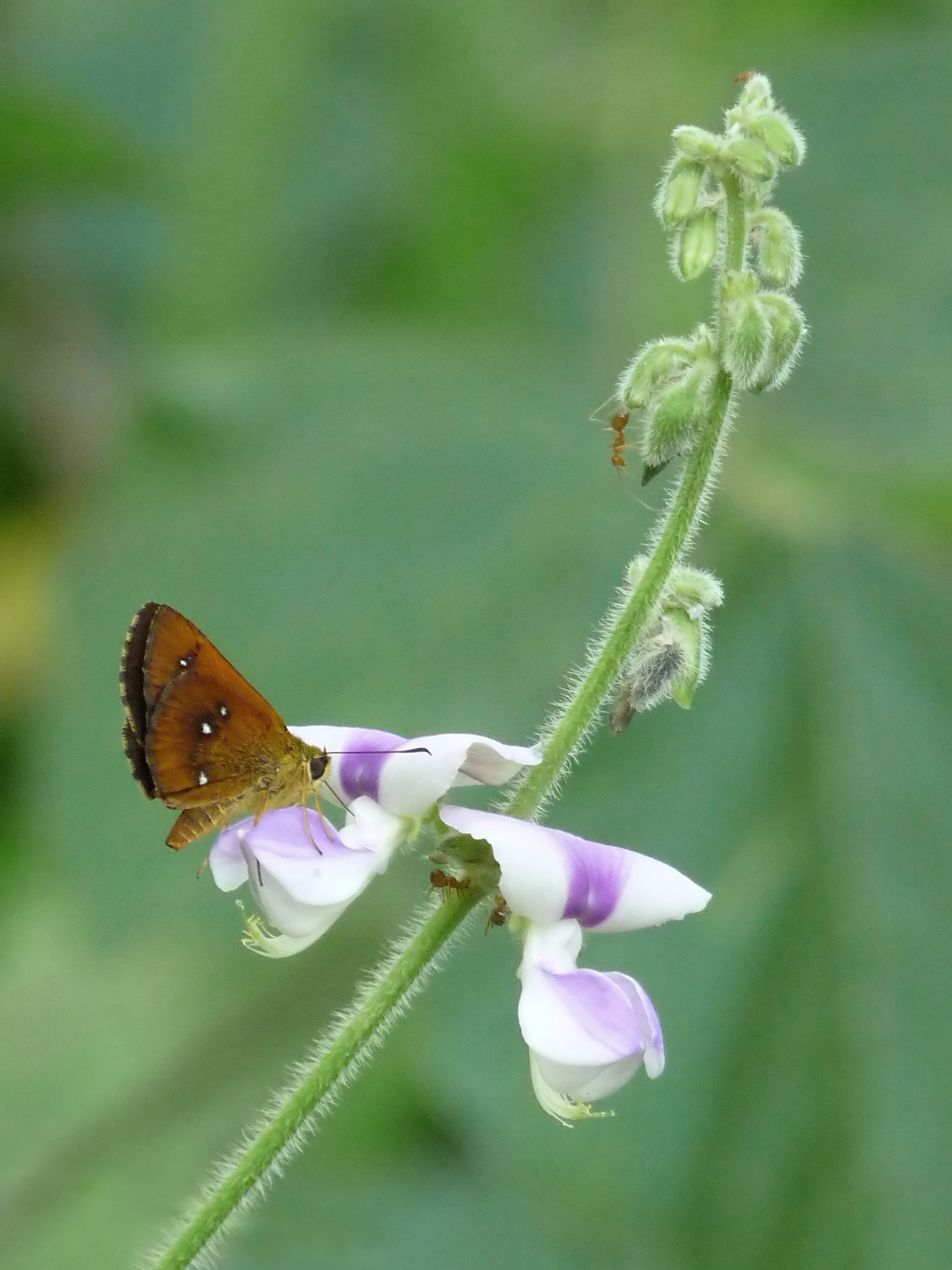 Pueraria phaseoloides, Tropical Kudzu, is a climbing, perennial shrub, with slender, rusty-hairy stems growing to 2-10 m long. Leaves are trifoliate with distinctive leaflets which are rhombic in shape, 3-15 cm long. Leaflet margin sometimes have undulations. Leaf stalk is 3-11 cm long. Flowers arise in raceme-like clusters, 15-30 cm long. Flower stalks are 2-5 mm long. Sepal tube is 3-4 mm long, velvety, with the upper 2 teeth joined almost to tip. Petals are lavender, with white margins. Standard petals is broadly elliptic, about 1.8 cm long, eared at base. Wings are eared and lobed at base. Keel is sickle shaped, acute. Fruit is linear, 5-10 cm long, velvety, dark grey. Tropical Kudzu is found in the Himalayas, from Nepal to Sikkim, Assam and South East Asia.